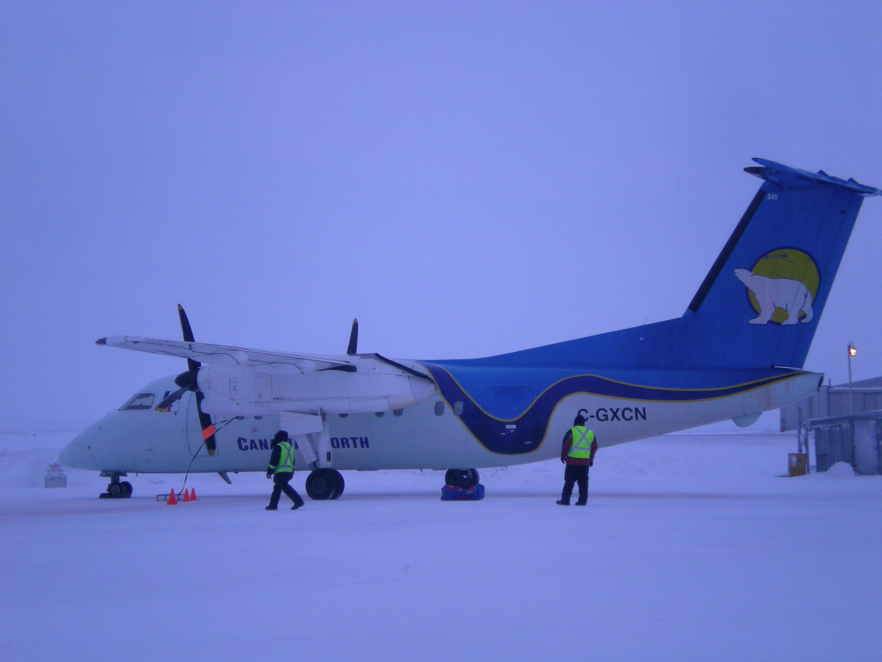 GXCN Dash 8 at Cambridge Bay Airport